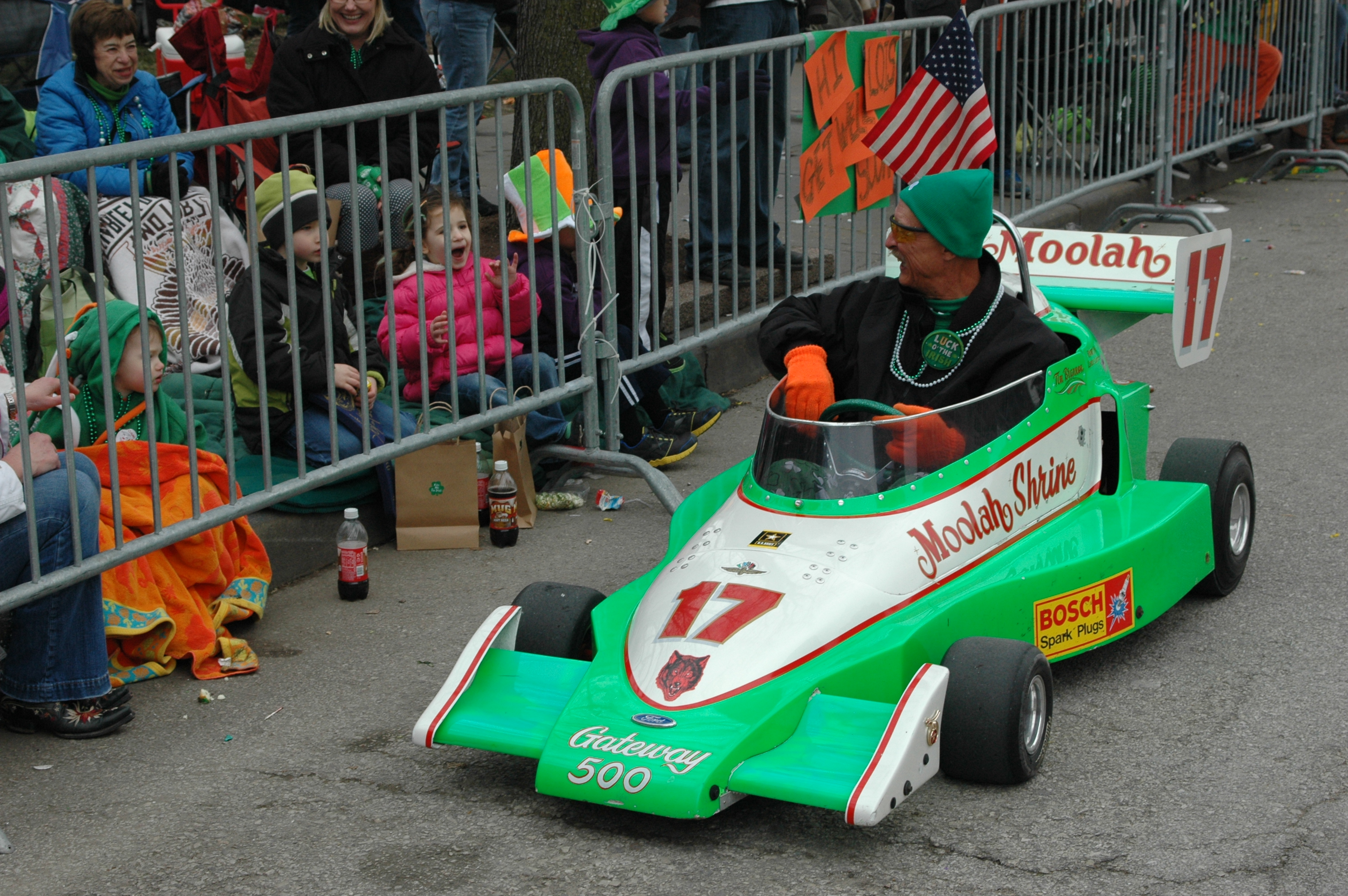 Moolah Shriner in high-performance parade car, stopping to greet children along parade route.